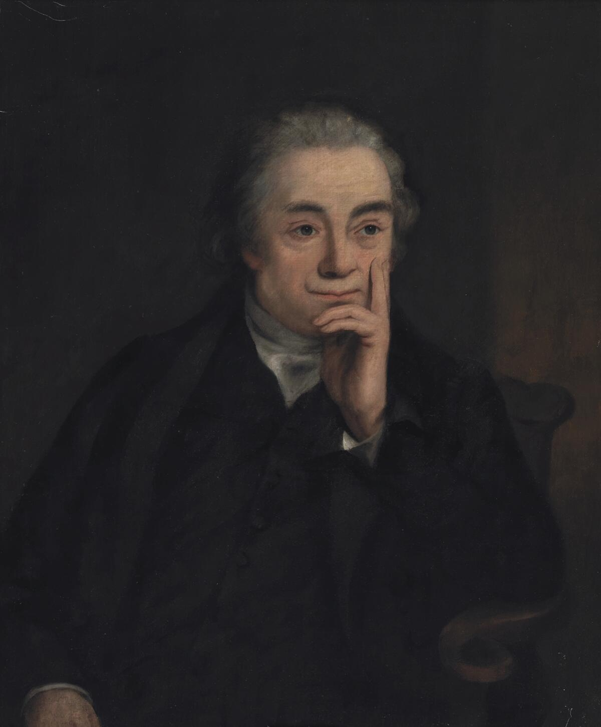 A painting from the Framed Works of Art collection at the National Library of wales.